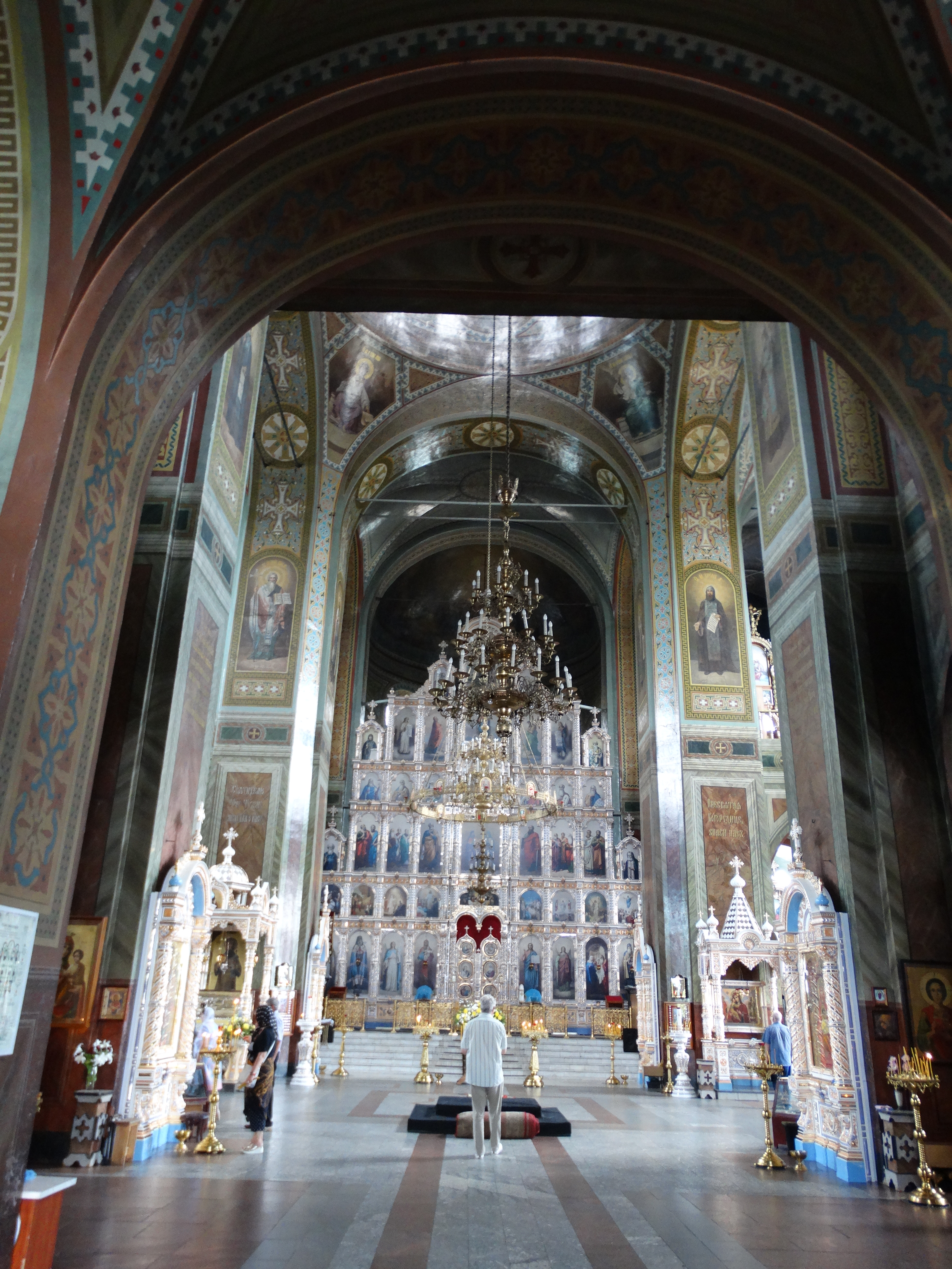 Zadonsk, Russia 6